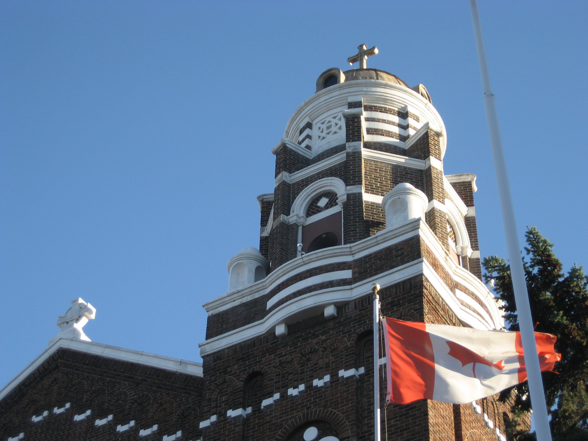 St. Stanislaus Kostka Roman Catholic Church, Barton Street East, Hamilton